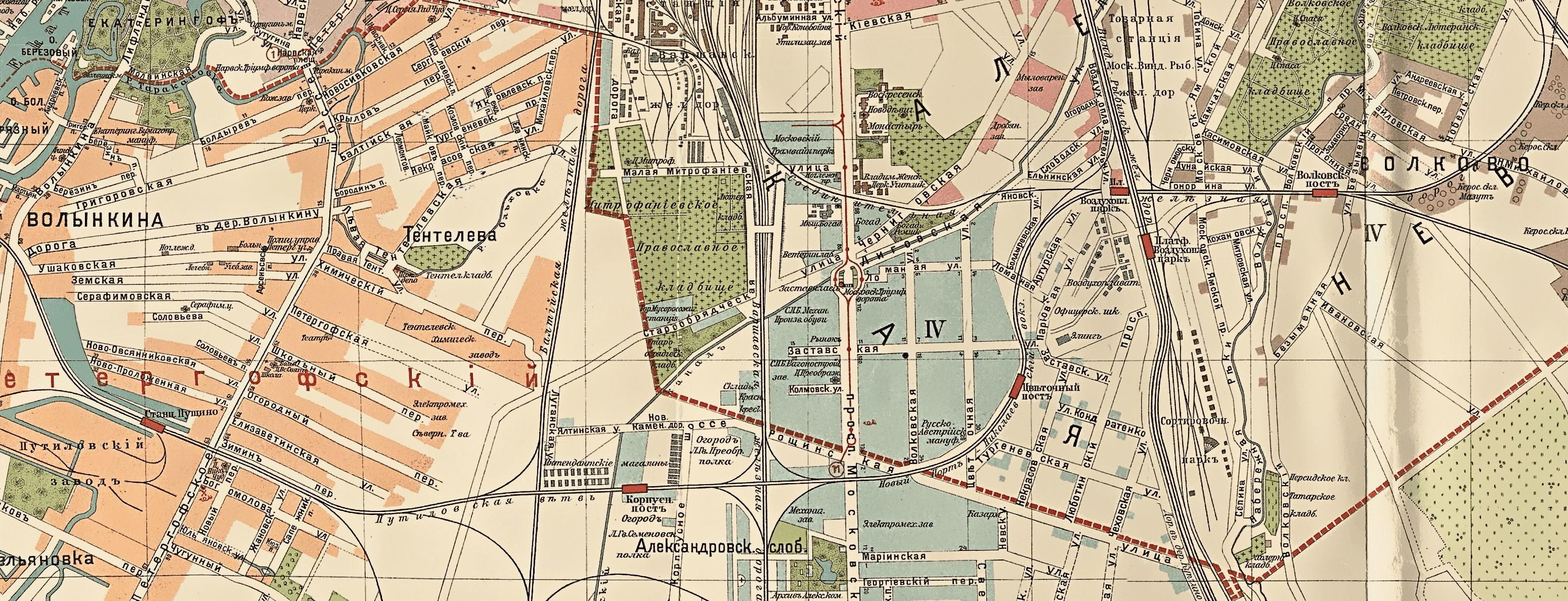 This is the detail of the map of Petersburg published in 1912, showing the layout of the private Putilov Railway siding in the whole railway network of the St.Petersburg Junction